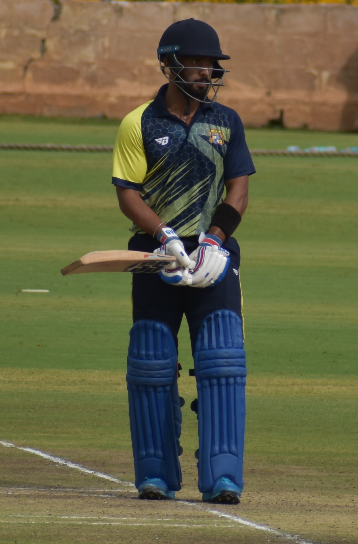 Indian cricketer Mandeep Singh during the 2019-20 Vijay Hazare Trophy in Alur, Bangalore.